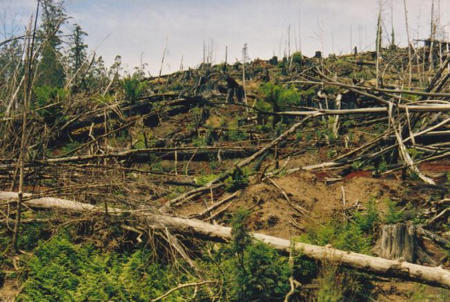 Tasmania, Styx Valley, Devastation caused by logging. Clear felled forest prior to bulldozing and burning. The remains that are left on the ground include all smaller trees, because the trucks are designed to carry only large logs between the prime-mover and bogey wheels. The tops of the trees and the bases of the trees are bulldozed and burnt. They are not the "waste" that is wood chipped. The "waste" that is woodchipped is the long trunks of all the taller trees (up to 85 metres, 280 feet). These are designated as "waste" because they are often hollow and knotty. Trees that are taller than any tree on the Eurasian continent are legally logged for woodchip.